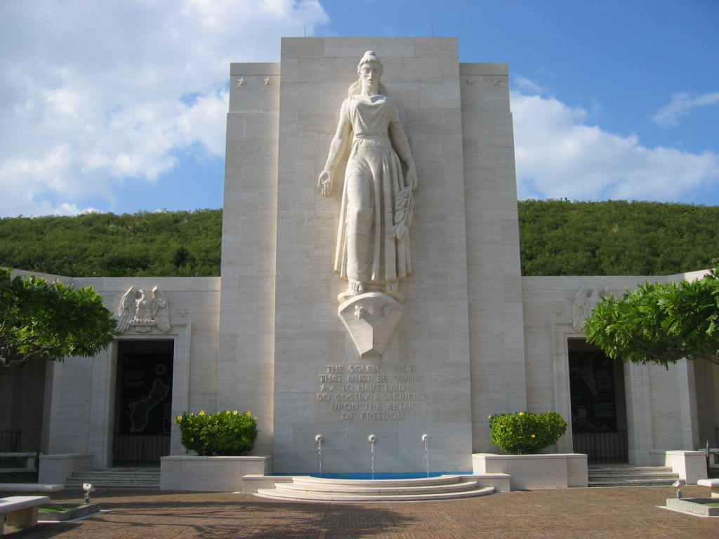 National Memorial Cemetery of the Pacific, Honolulu, Hawai'i